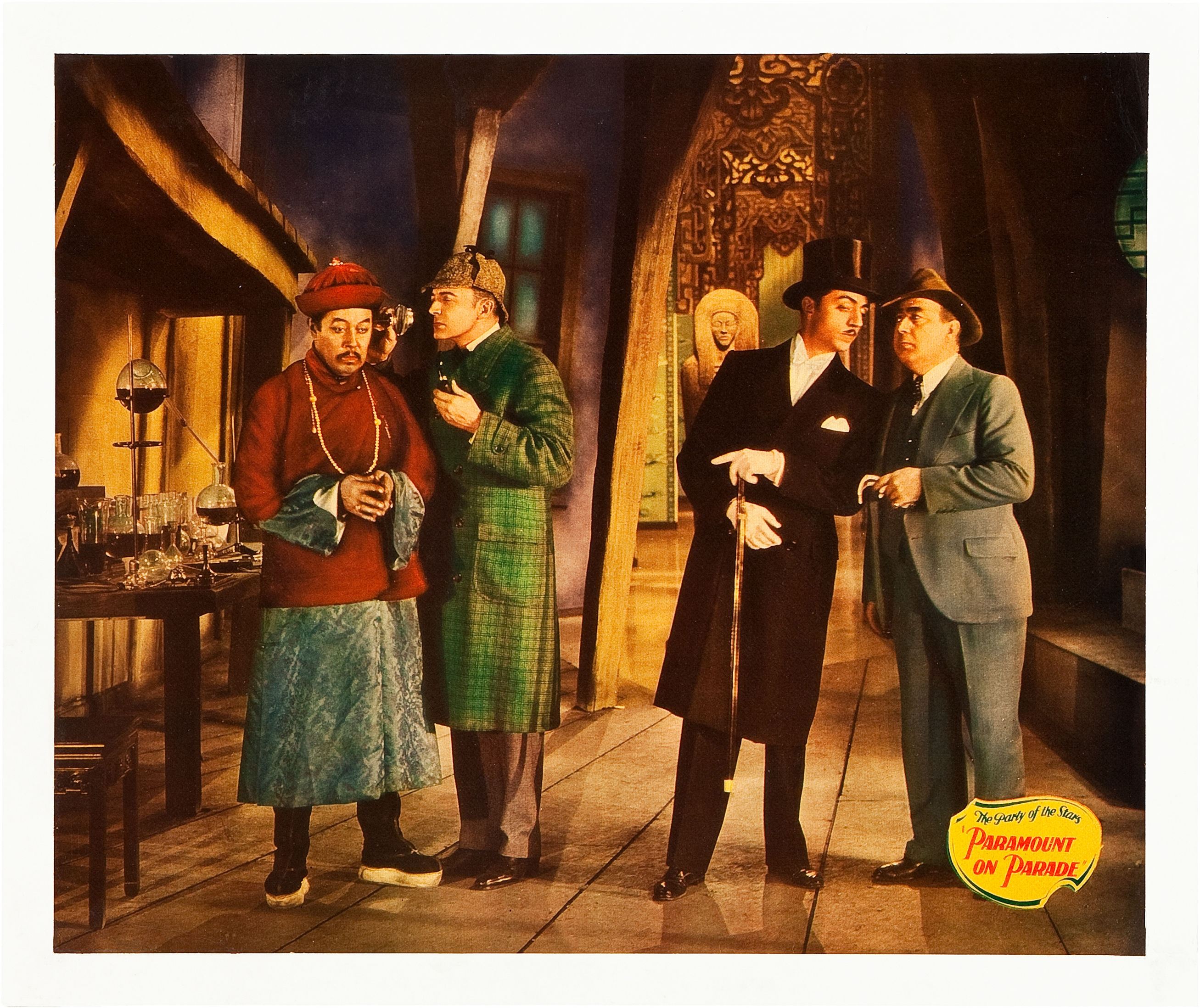 Jumbo lobby card for the 1930 film Paramount on Parade Image is a scene from the "Murder Will Out" skit, with Warner Oland (Fu Manchu), Clive Brook (Sherlock Holmes), William Powell (Philo Vance), and Eugene Pallette (Sergeant Heath). The victim in the sequence, not seen here, is Jack Oakie. — Source: Lawrence J. Quirk, The Complete Films of William Powell. New York: Citadel Press (Carol Publishing Group), 1990 [1986], pp. 114–115. ISBN 0-8065-0998-8